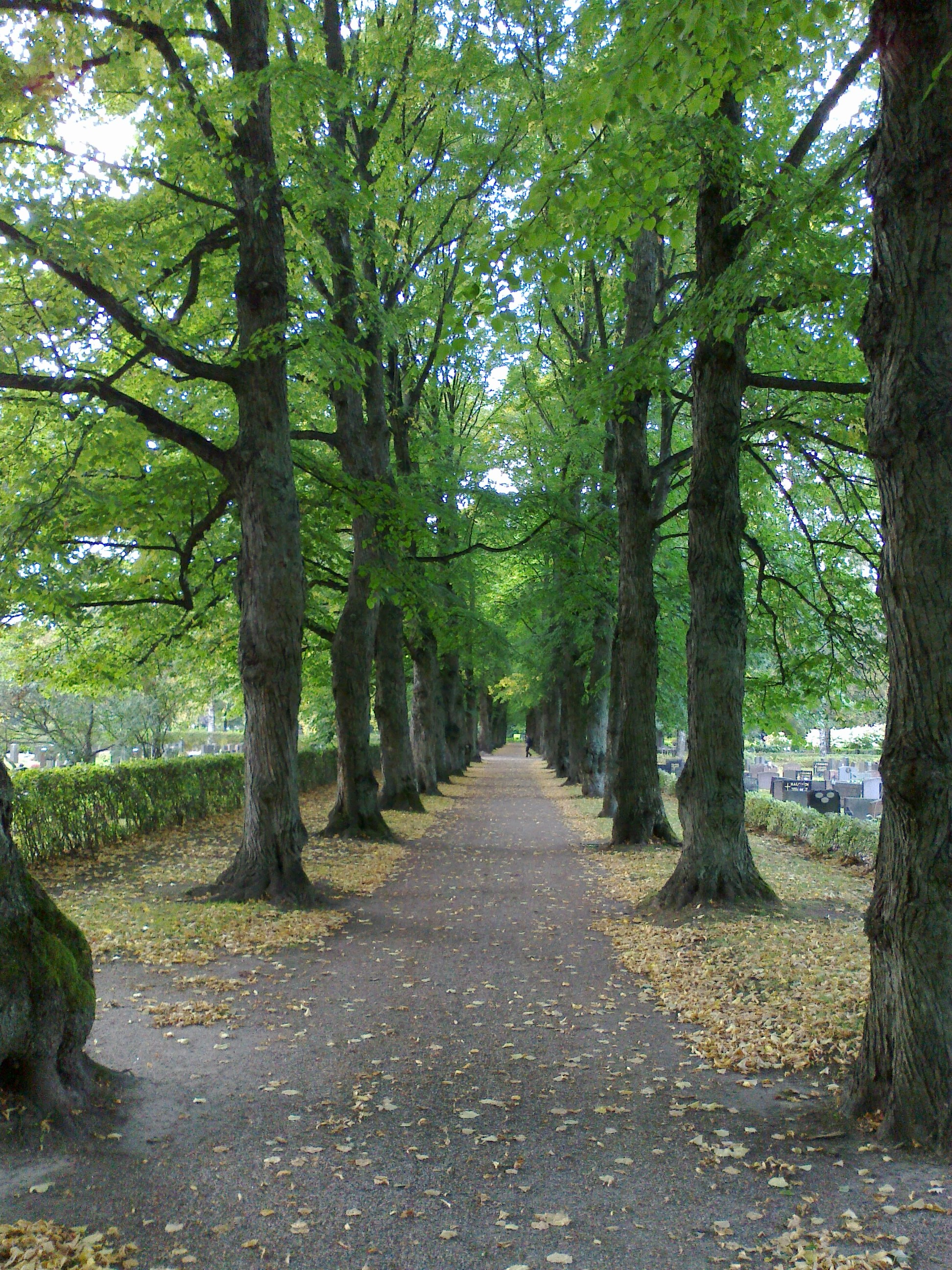 An Alley in the Malmi Graveyard